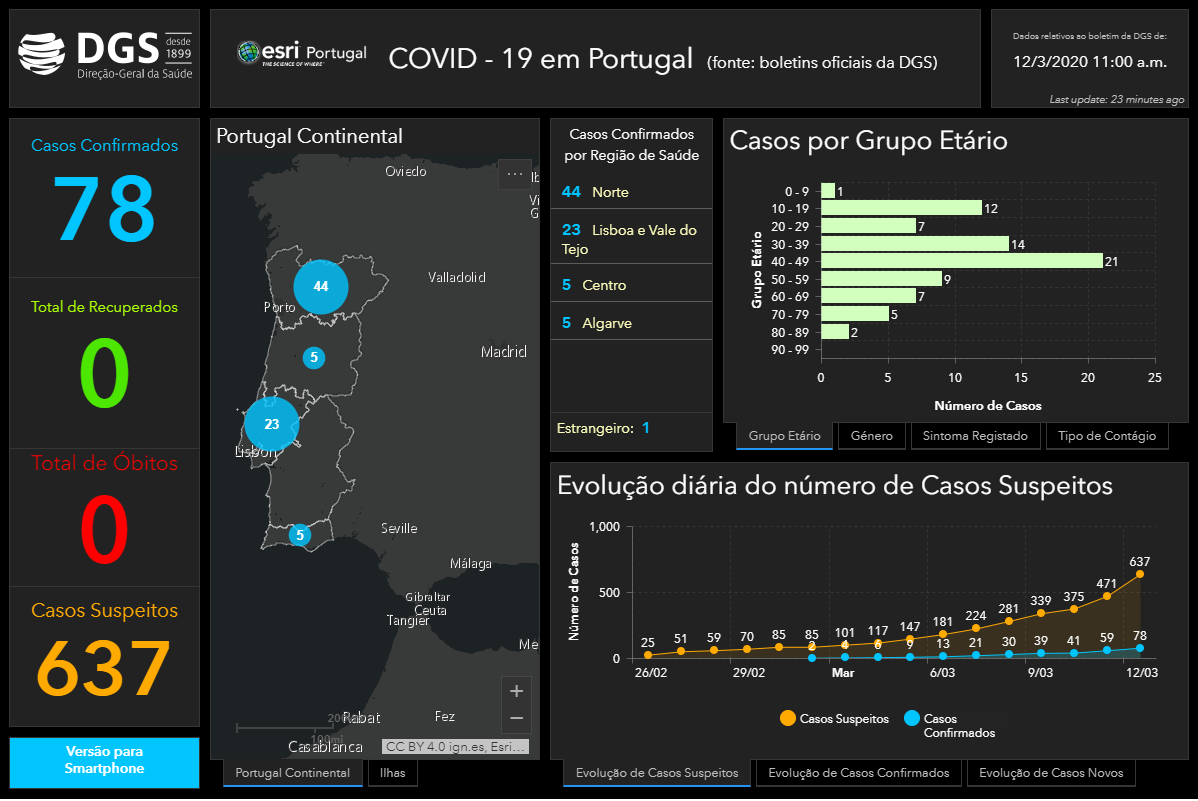 Official map of COVID-19 infections in Portugal provided by Portuguese DGS